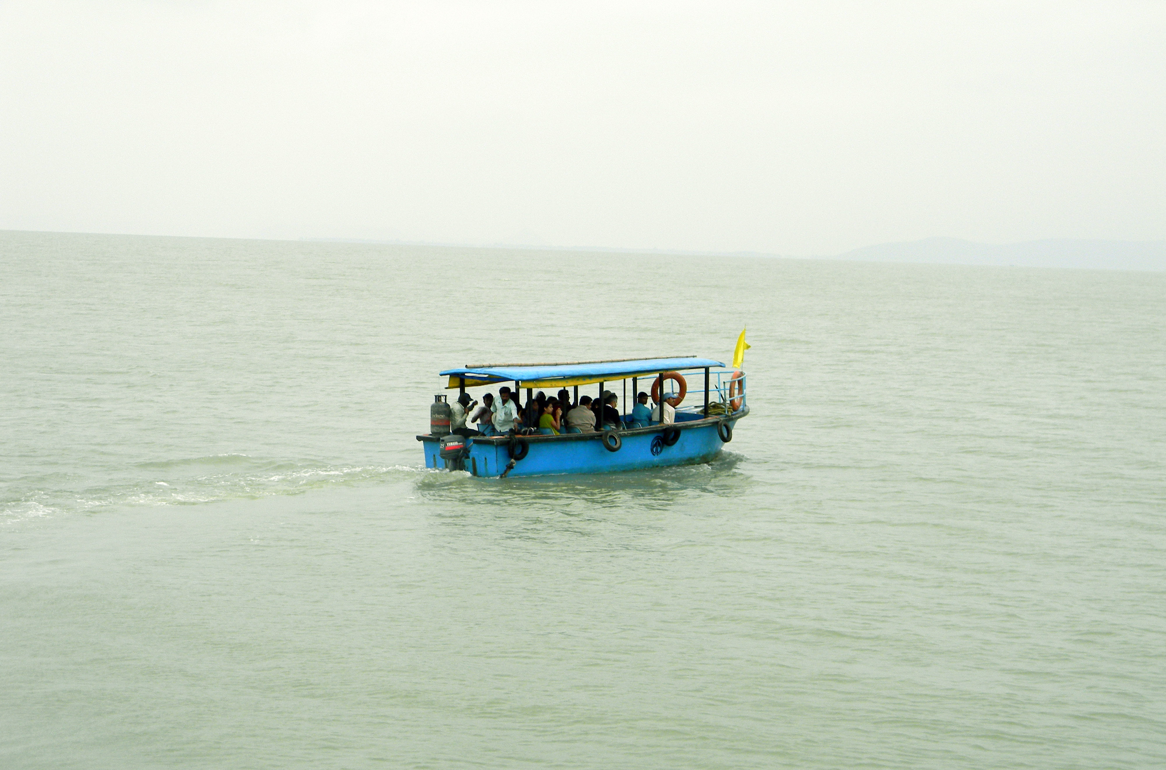 Chilika Lake, Khurda, Odisha This media file is uploaded with Odia loves Wikipedia English |italiano |македонски |മലയാളം |ଓଡ଼ିଆ +/−